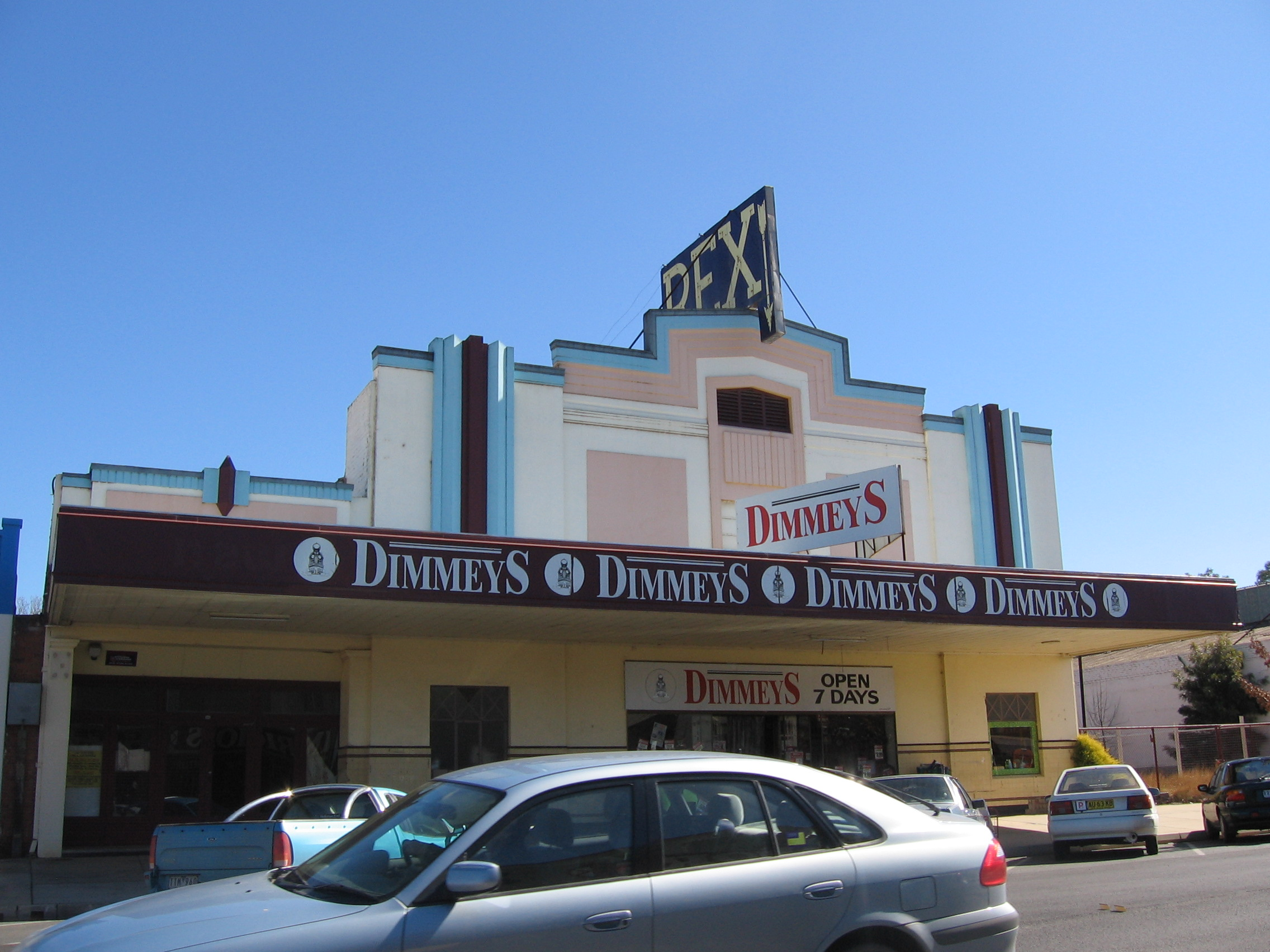 Former Rex Theatre, now a Dimmeys shop at Corowa, New South Wales